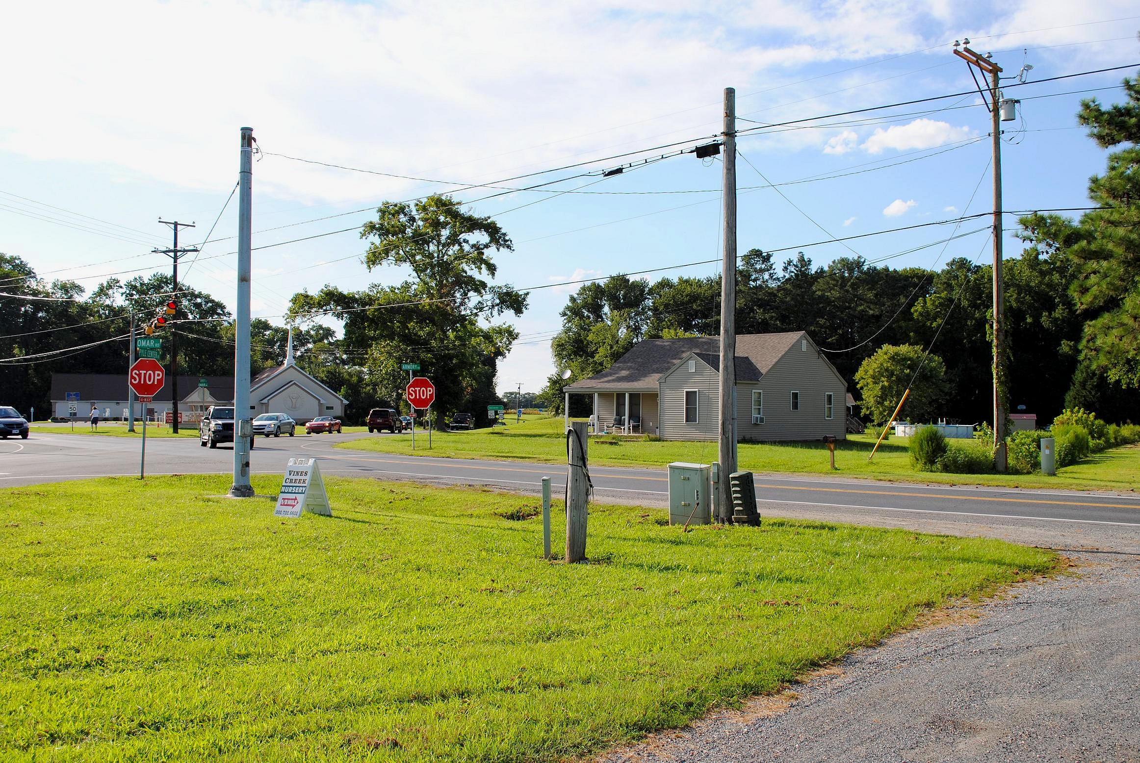 The 4 way stop intersection with the blinking traffic light. This is mostly what Omar is known for.